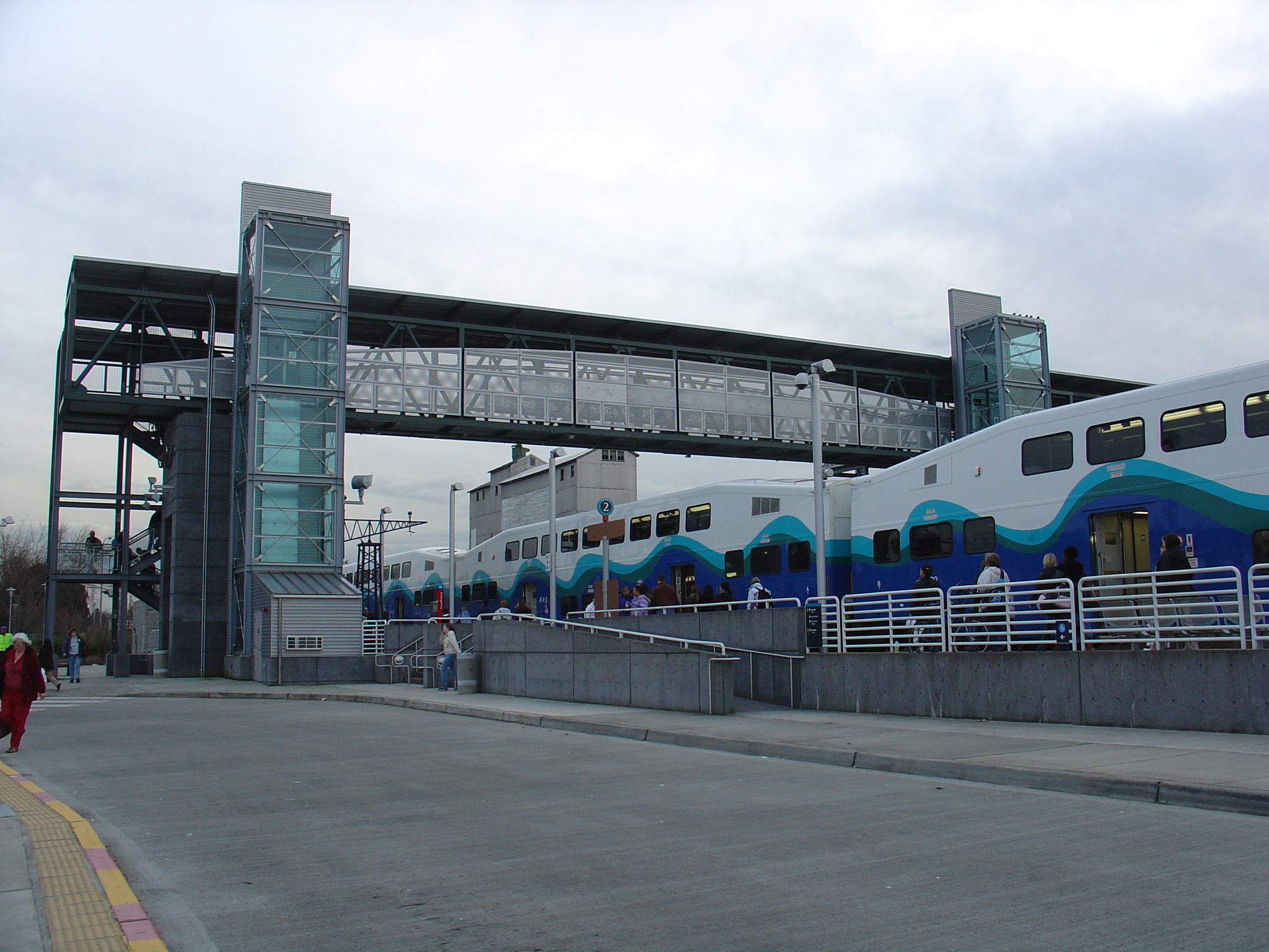 Bilevel commuter train in SoundTransit livery.